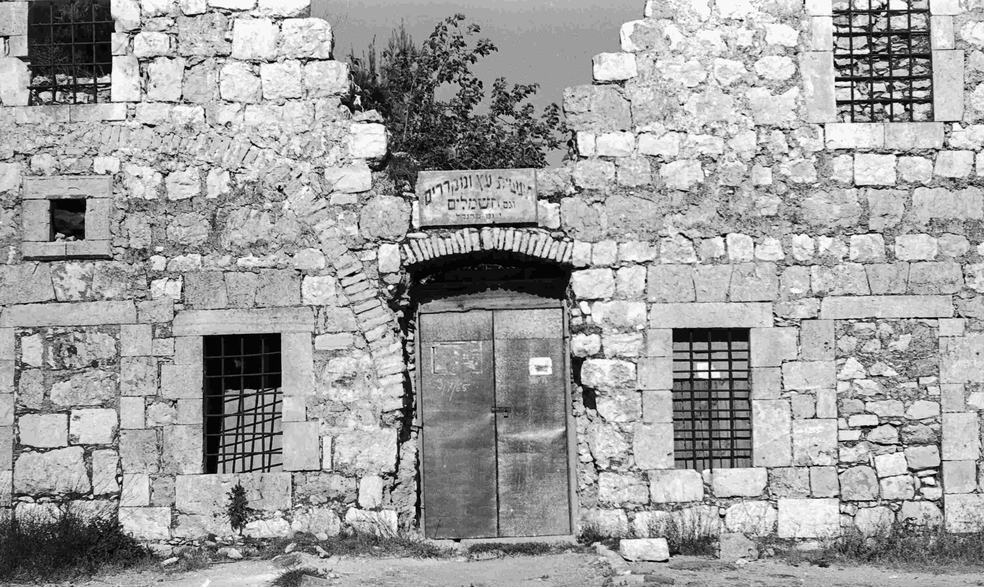 South-Western entrance of the Jerusalem Khan before reconstruction. The signboard indicates: "wood and refrigerators factory, and also electrical ones"